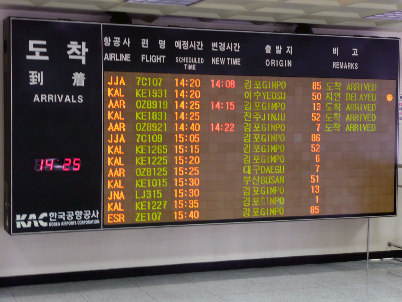 Chart of domestic flight arrivals at Cheju International Airport